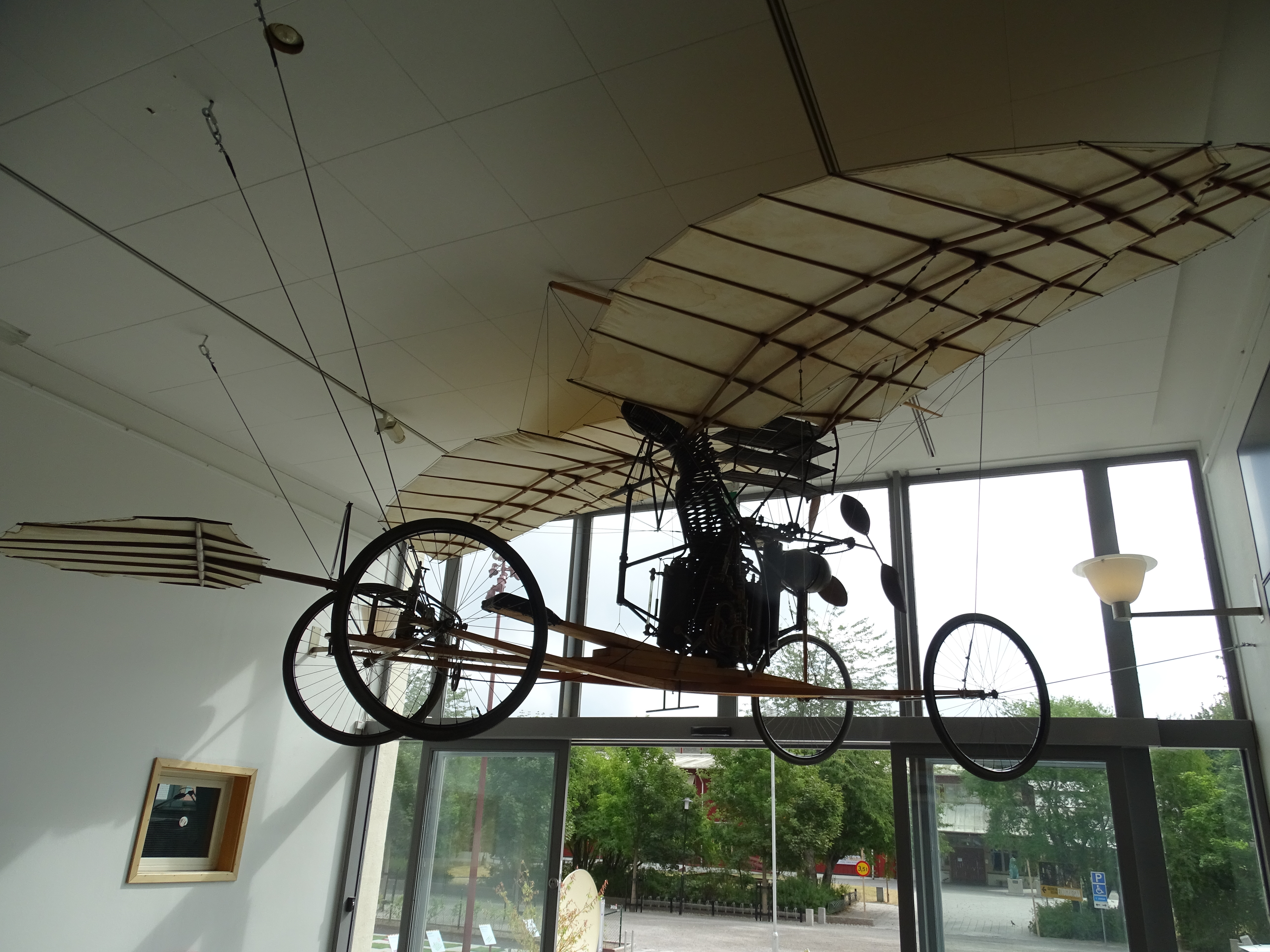 Flugan (The Fly) was an early aeroplane designed and built by Carl Richard Nyberg. It was partly reconstructed and is now on exhibit in the Tekniska Museet, Stockholm, Sweden.